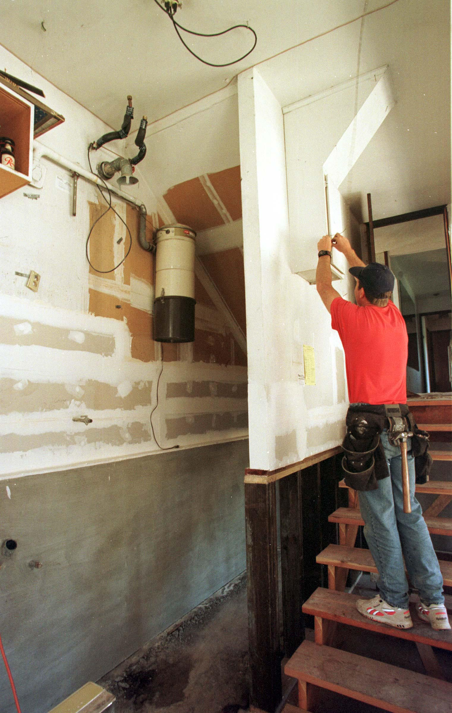 undetermined, AL -- FEMA Hazard Mitigation. Moving a water heater above ground level will help save the appliance and keep it working during a flood. NOTE: While the foregoing is true, the appliance in the picture appears to be a central vacuum cleaner (probably of the "HP Vacuflo" brand), and not a water heater. Photo by: Dave Gatley/ FEMA News Photo